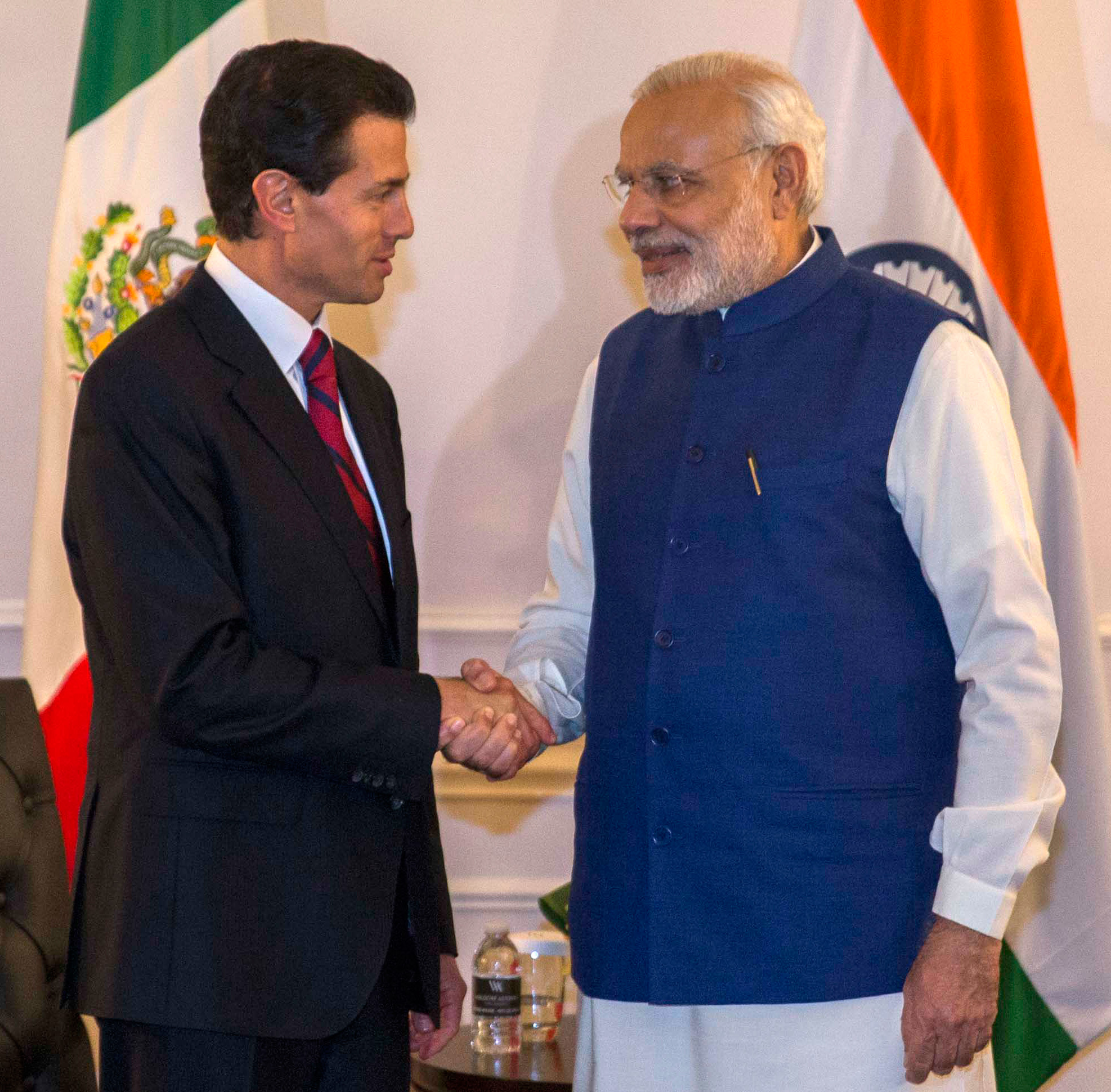 Reunión bilateral con el Excmo. Sr. Narendra Modi, Primer Ministro de la República de la India. Nueva York. 28 de septiembre de 2015.